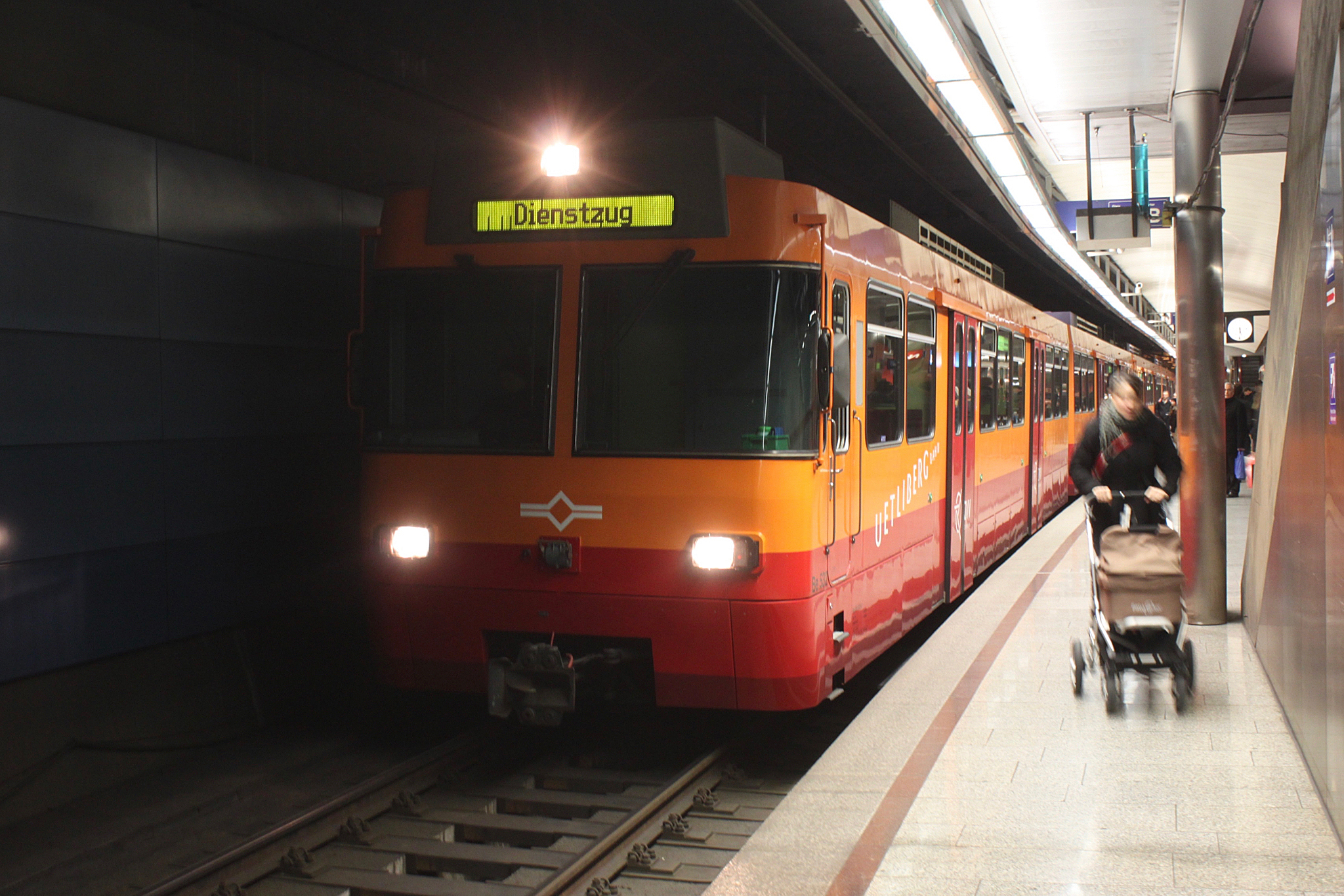 SZU Be 556 532 at Zürich HB train station.